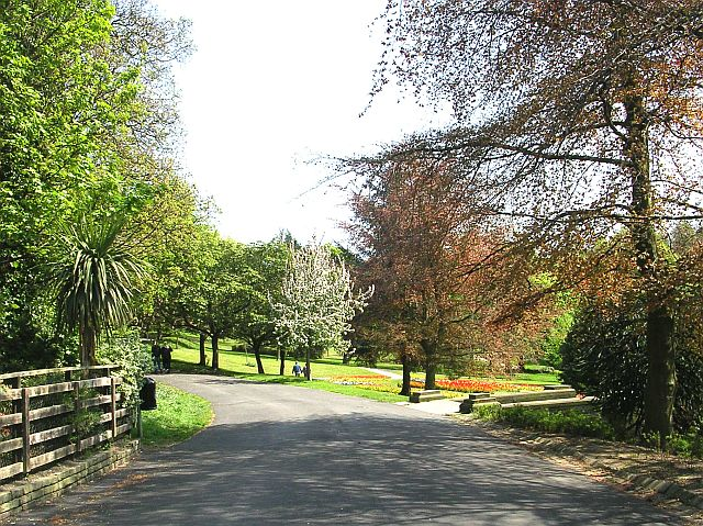 General View of Peel Park